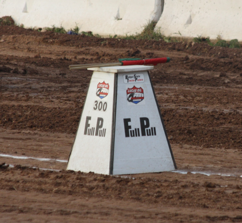 A "Full Pull" marker at the Mackville Nationals tractor pull in Mackville, Wisconsin. The market indicates normally 300 feet, the distance that the class needs to reach to compete in a second round "pulloff".